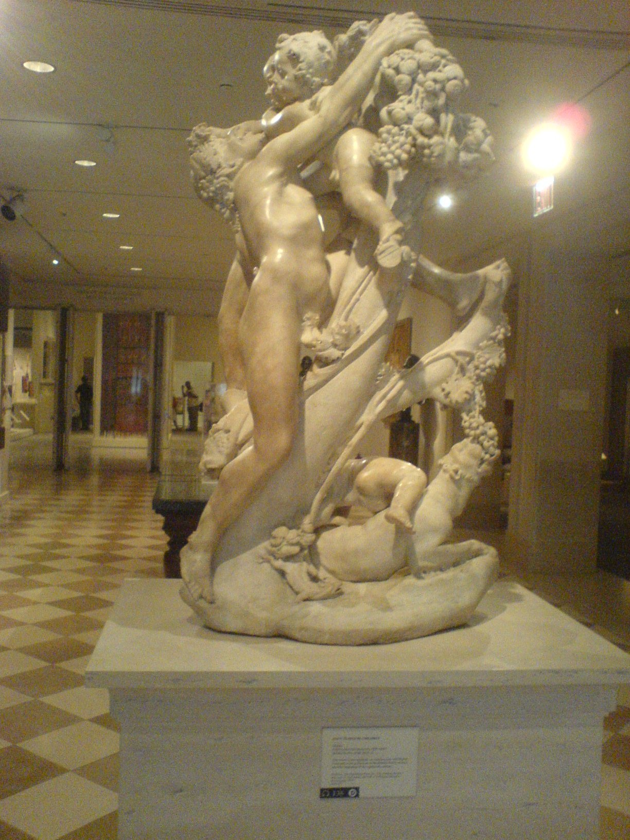 'Bacchanal: A Faun Teased by Children' by Gian Lorenzo Bernini (Italian, 1598-1680) Made in Rome, Italy. 17th century, Italian. Mannerist motif of interwoven figures Early Italian Baroque style Current location, The Metropolitan Museum, New York (acquired 1976)